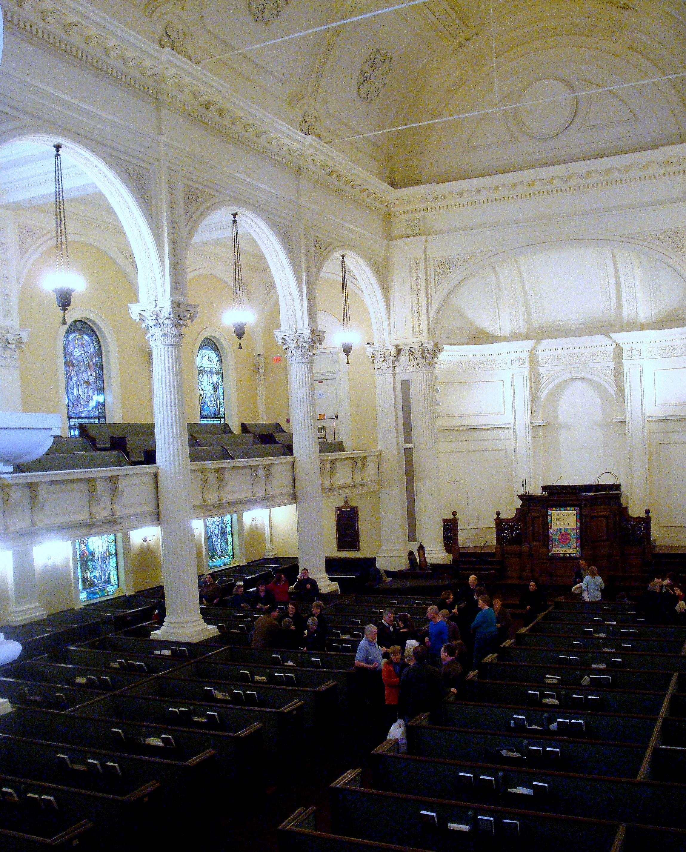 Interior of Arlington Street Church in Boston, Massachusetts. March 2009 photo by John Stephen Dwyer